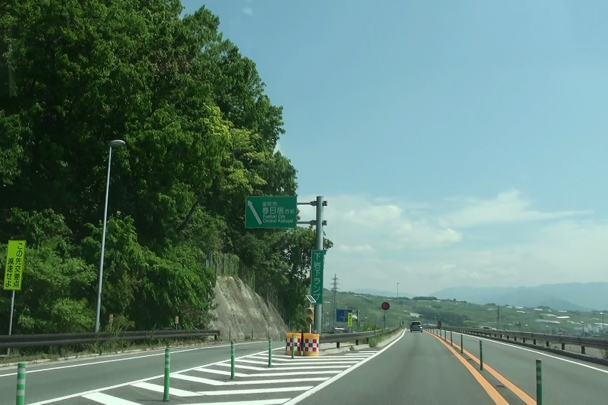 Kofu-Yamanashi road Shimoiwashita-ramp